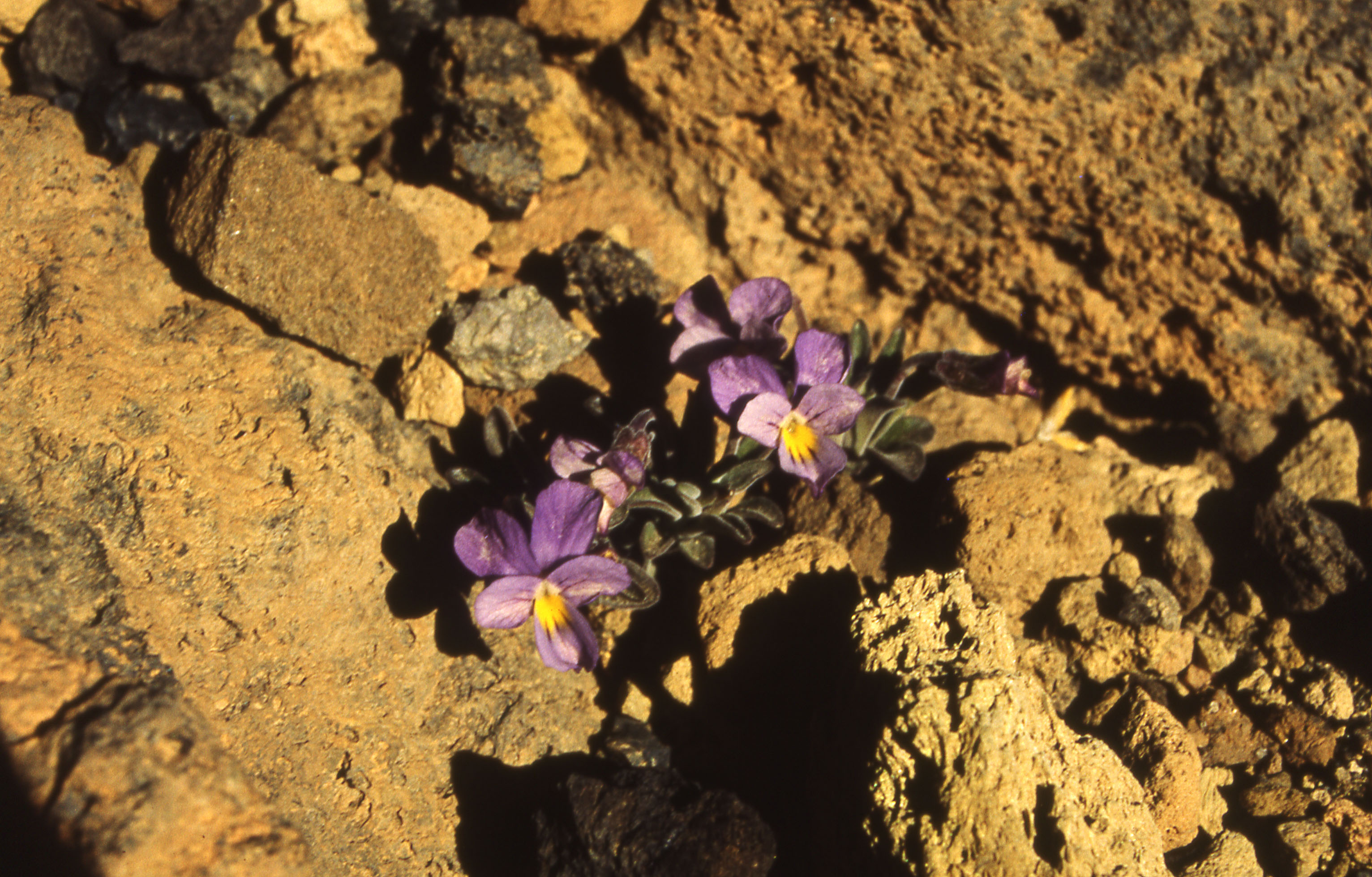 Viola cheiranthifolia shot on the slopes of Pico de Teide in 1994